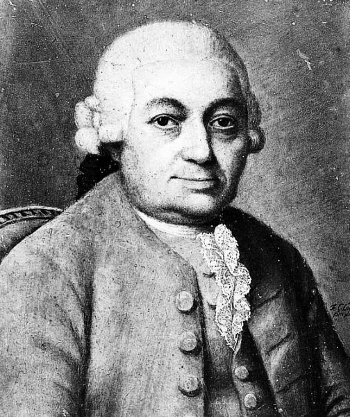 Depicted person: Carl Philipp Emanuel Bach